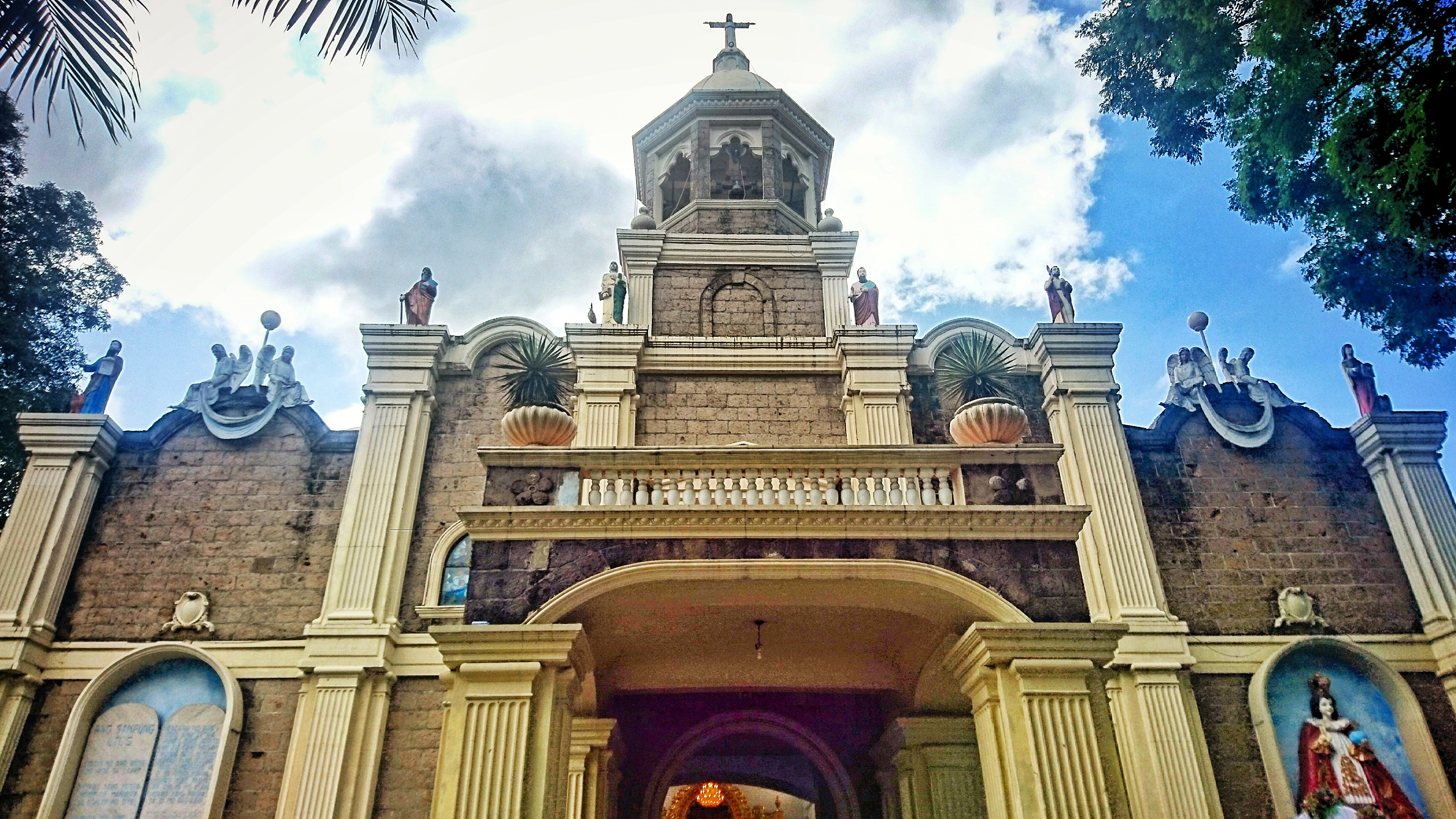 Photo taken during the Sesquicentennial Anniversary of the Parish Church; phone edited through Snapseed app